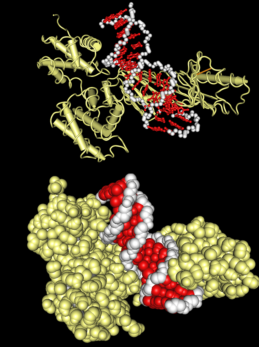 TATA-binding protein/transcription factor (II)B/TATA-box complex from Pyrococcus woesei. Self created from MMDB entry 47884 using the freely available visualization and analysis package Cn3D